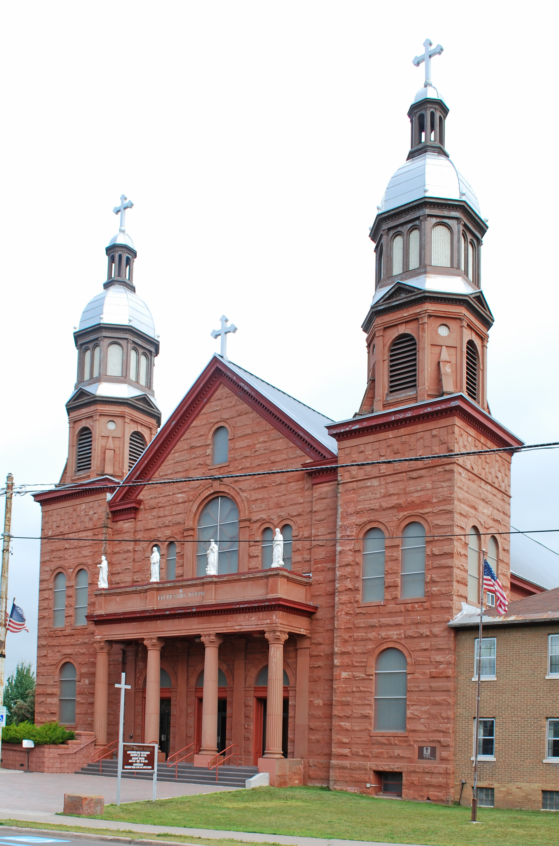 Church — Lake Linden MI Historic District.